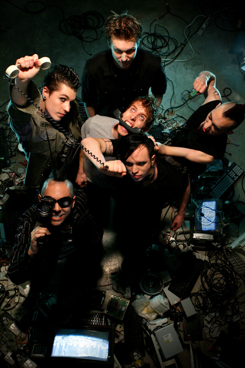 Left Spine Down Promo Photo 2008 - Fighting for Voltage